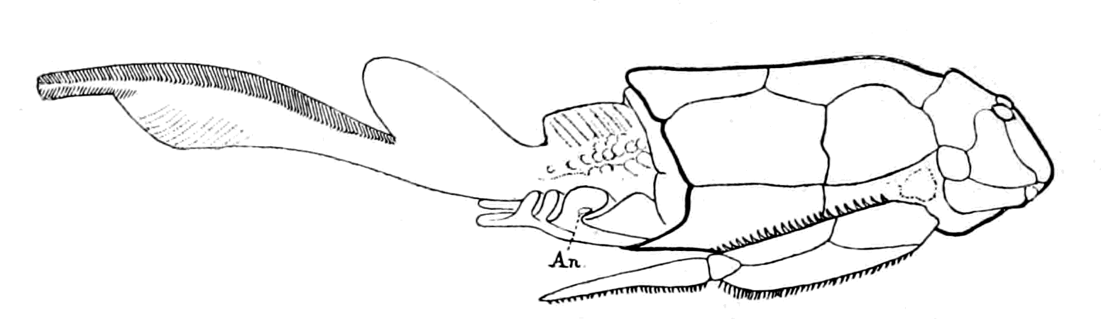 Fig. 16.—Bothriolepis. (After Patten.) An., position of anus.